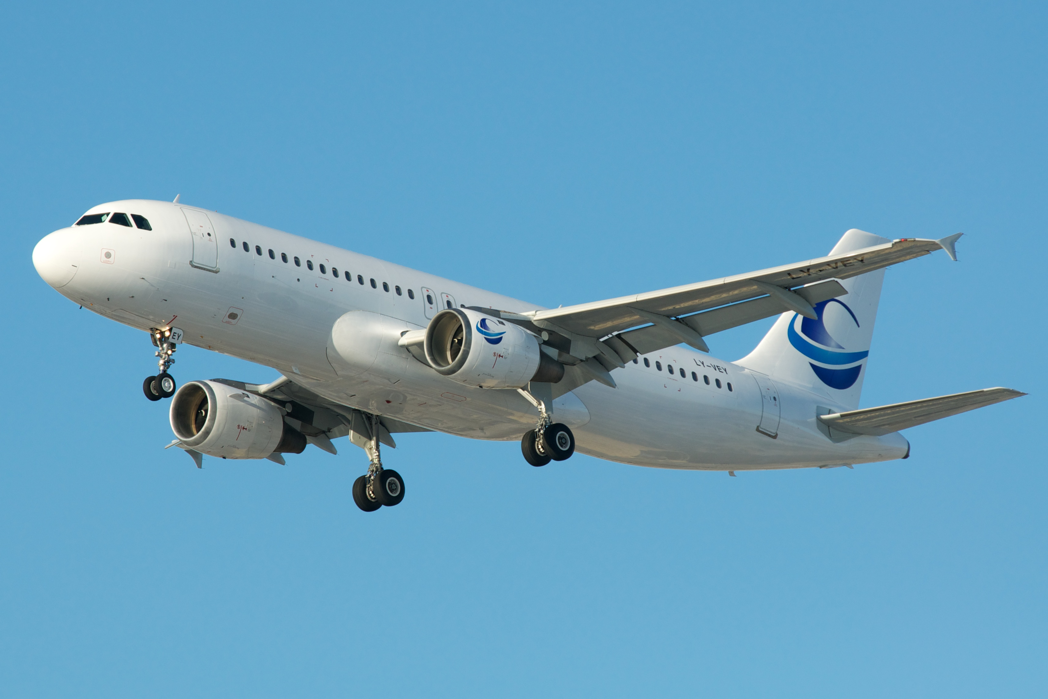 Operating for Cubana. YYZ.